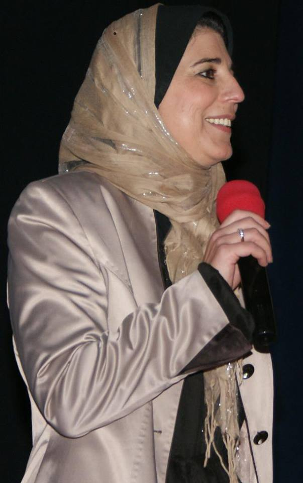 saloua chaoudri concert 3